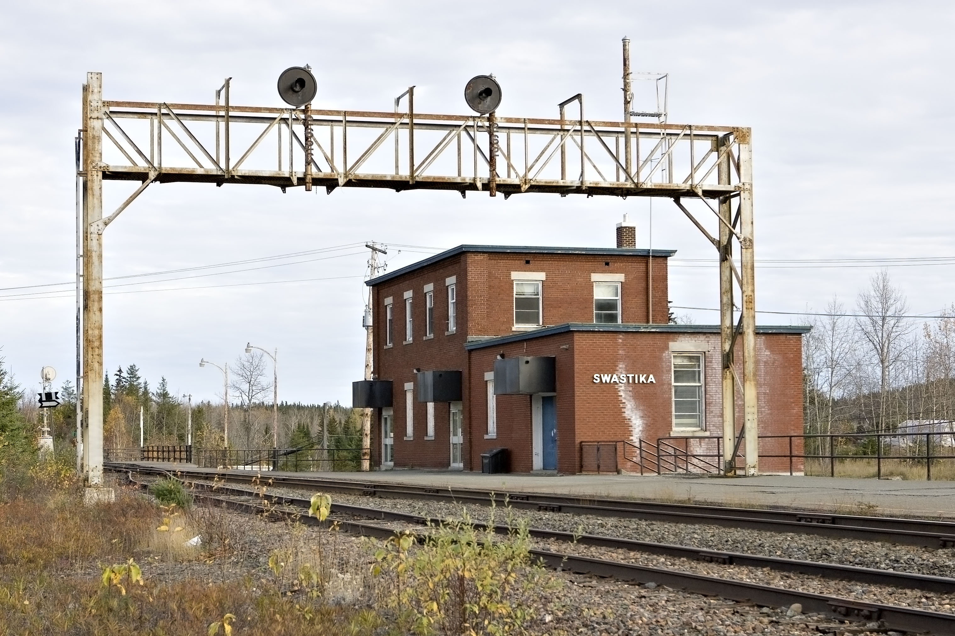 Swastika, Ontario train station, view from platform